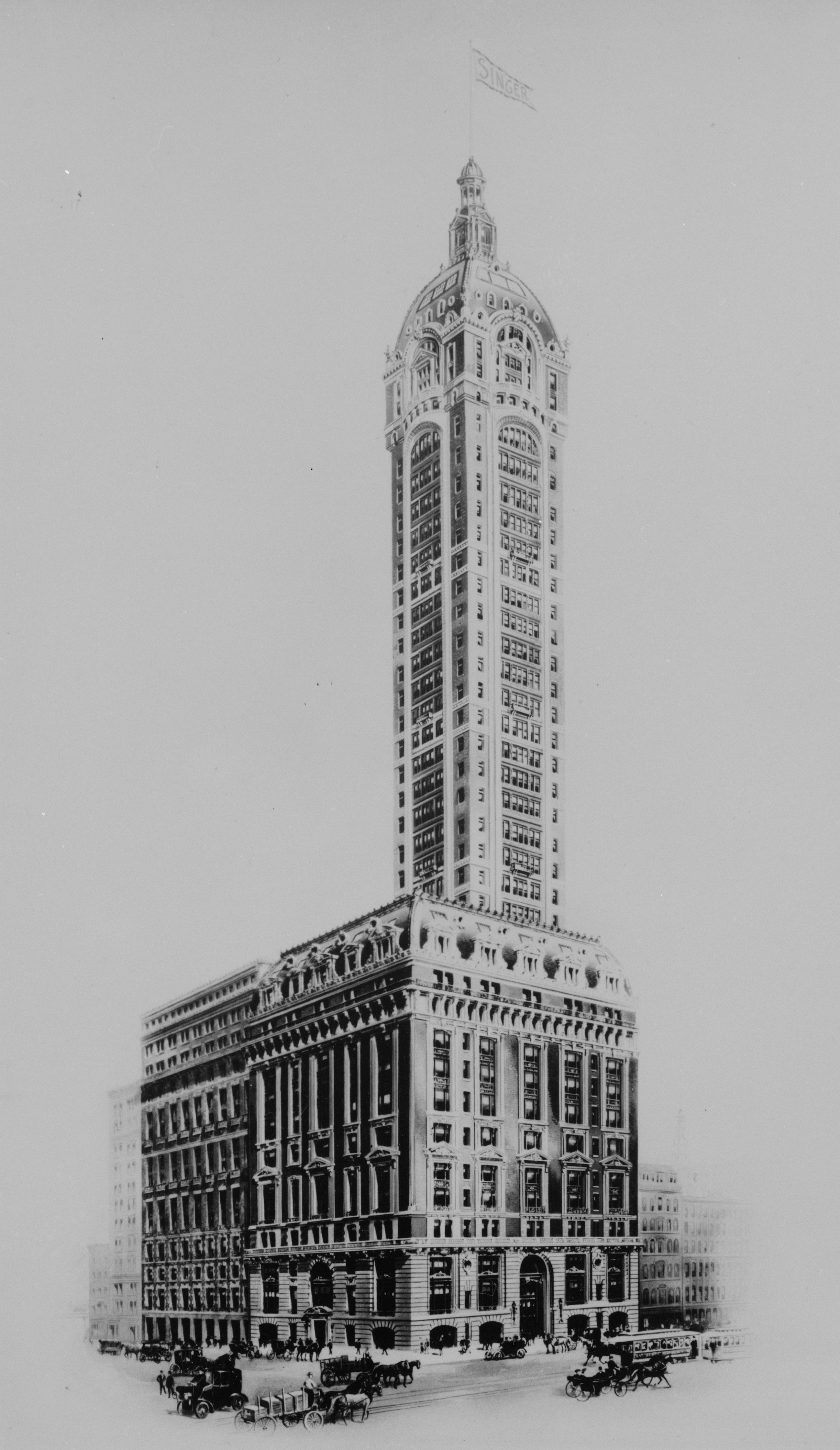 Former Singer Building in New York City - VIEW FROM SOUTHEAST. Image courtesy of Historic American Buildings Survey—HABS.